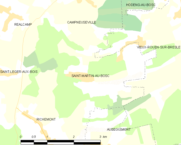 Map of French municipality Saint-Martin-au-Bosc